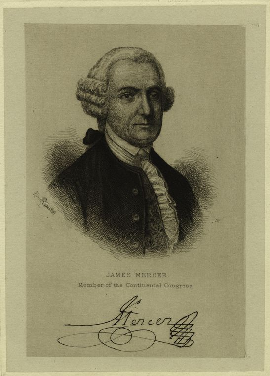 James Mercer, Delegate to Continental Congress